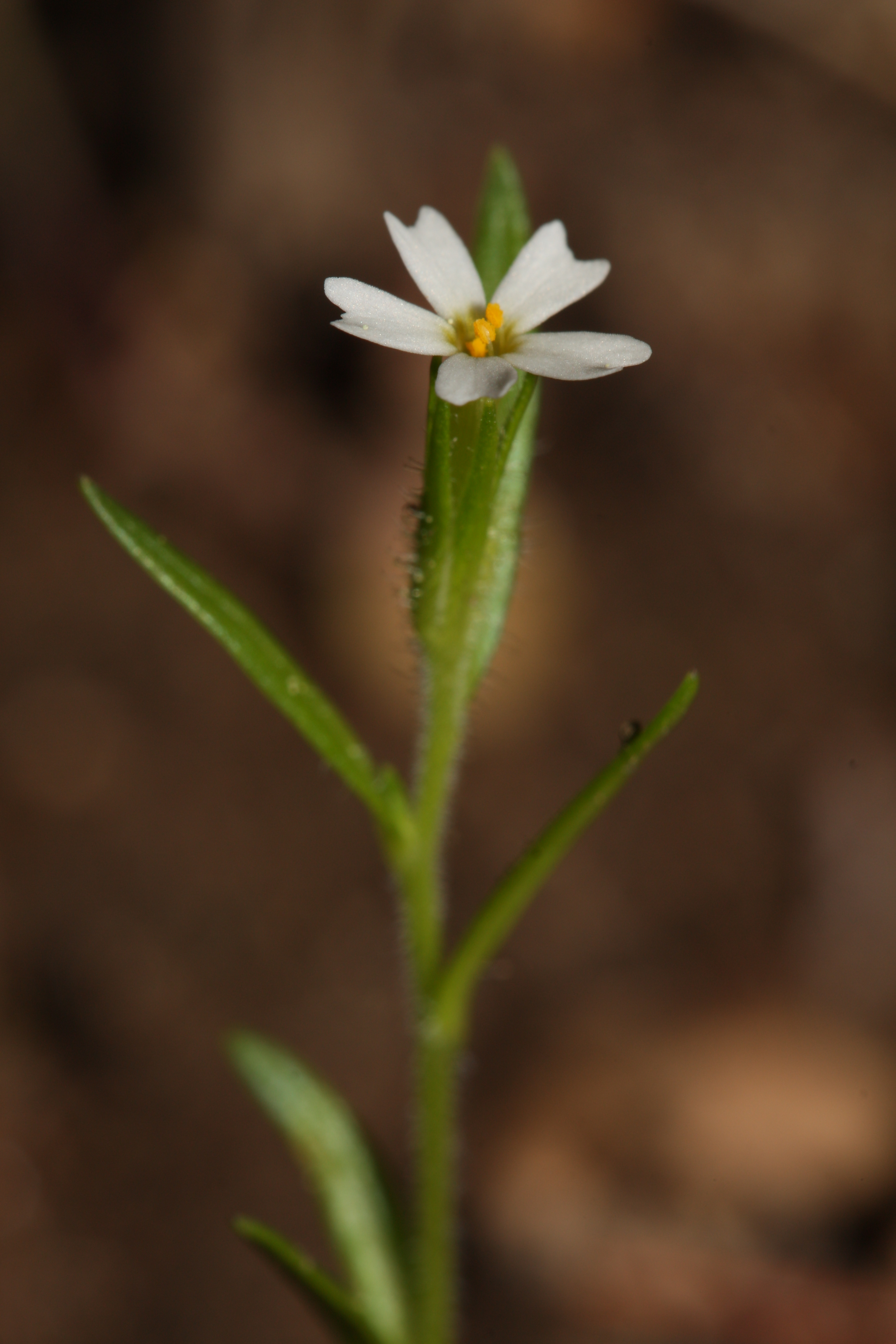 Slender Phlox